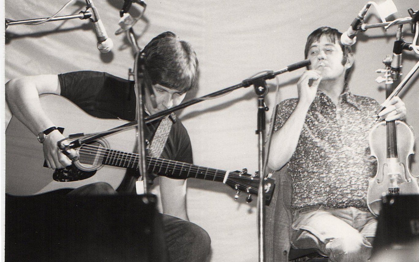 Simon Nicol and Dave Swarbrick (musicians) on stage at the 1981 Essex Festival (photograph by Tony Rees)